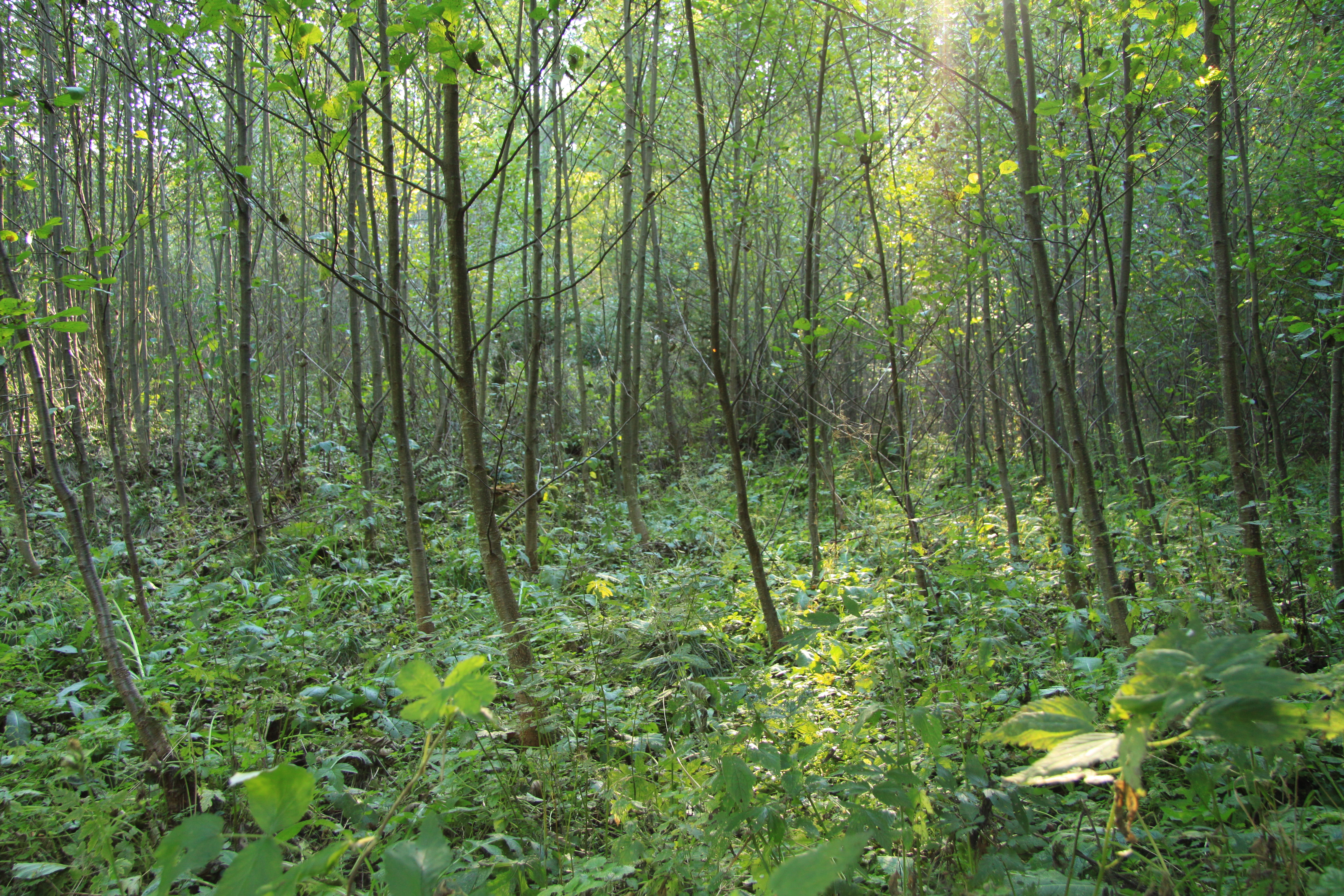 Nature reserve Saladínská olšina near Saladín, part of Záblatí village in Prachatice District, Czech Republic Project: Chráněná území.